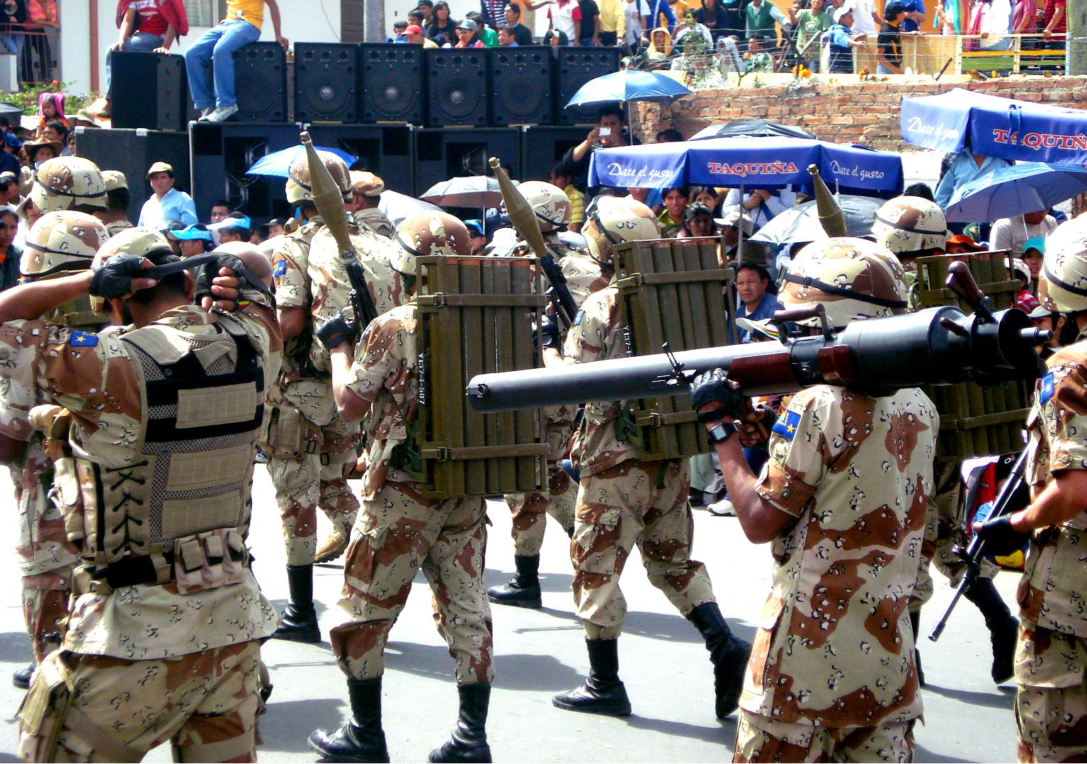 Bolivian Marines advancing in the military parade in Cochabamba.